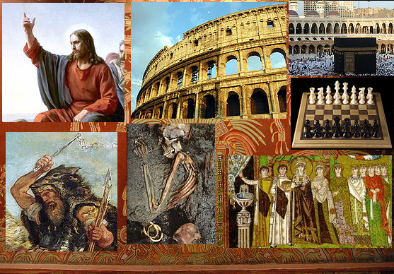 A montage of notable events in the 1000s.